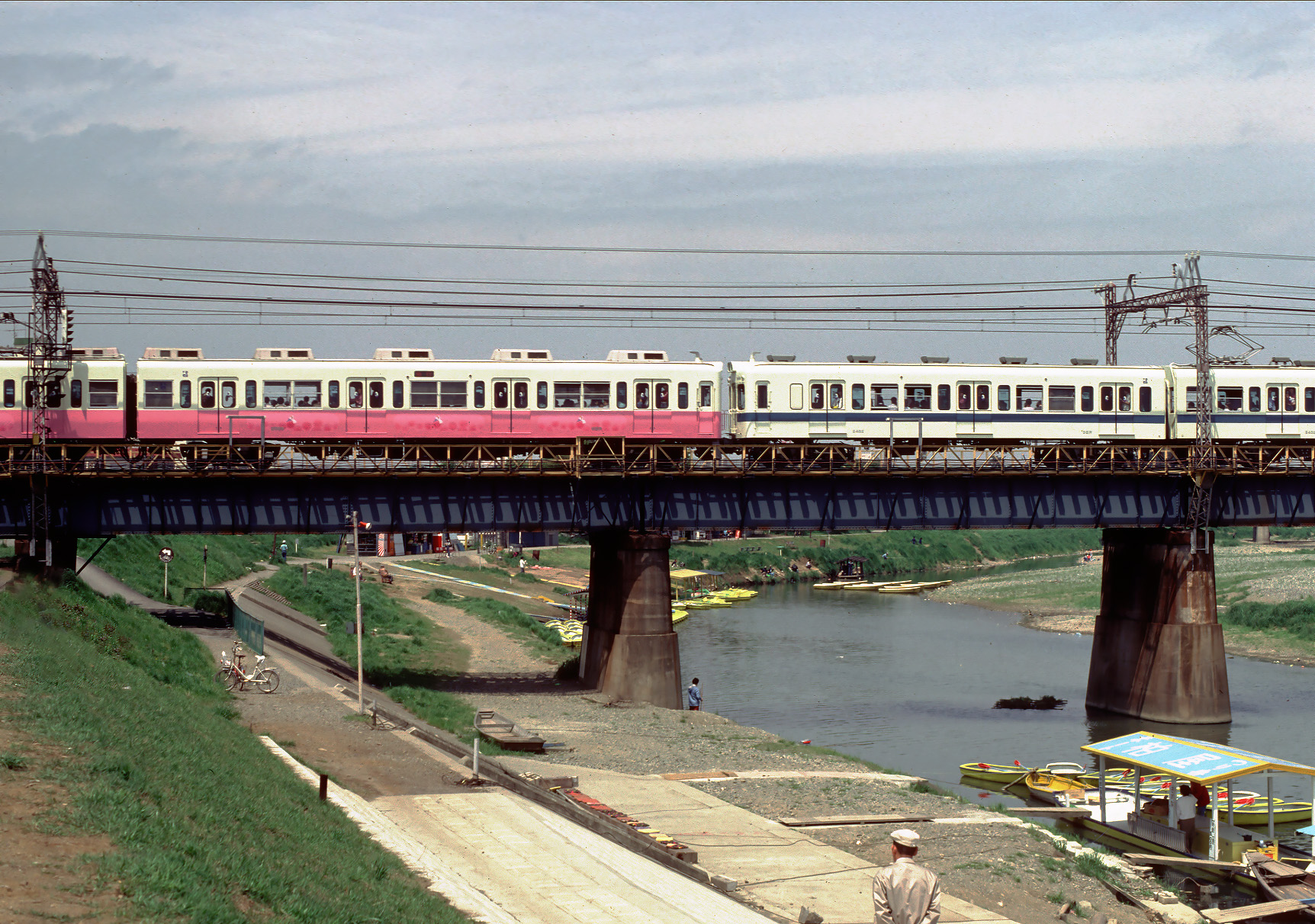 Odakyu Electric Railway 2600 series EMU in flower train livery (type 2) with the connection of 2400 series one on the express service, running between Izumitamagawa and Noborito.